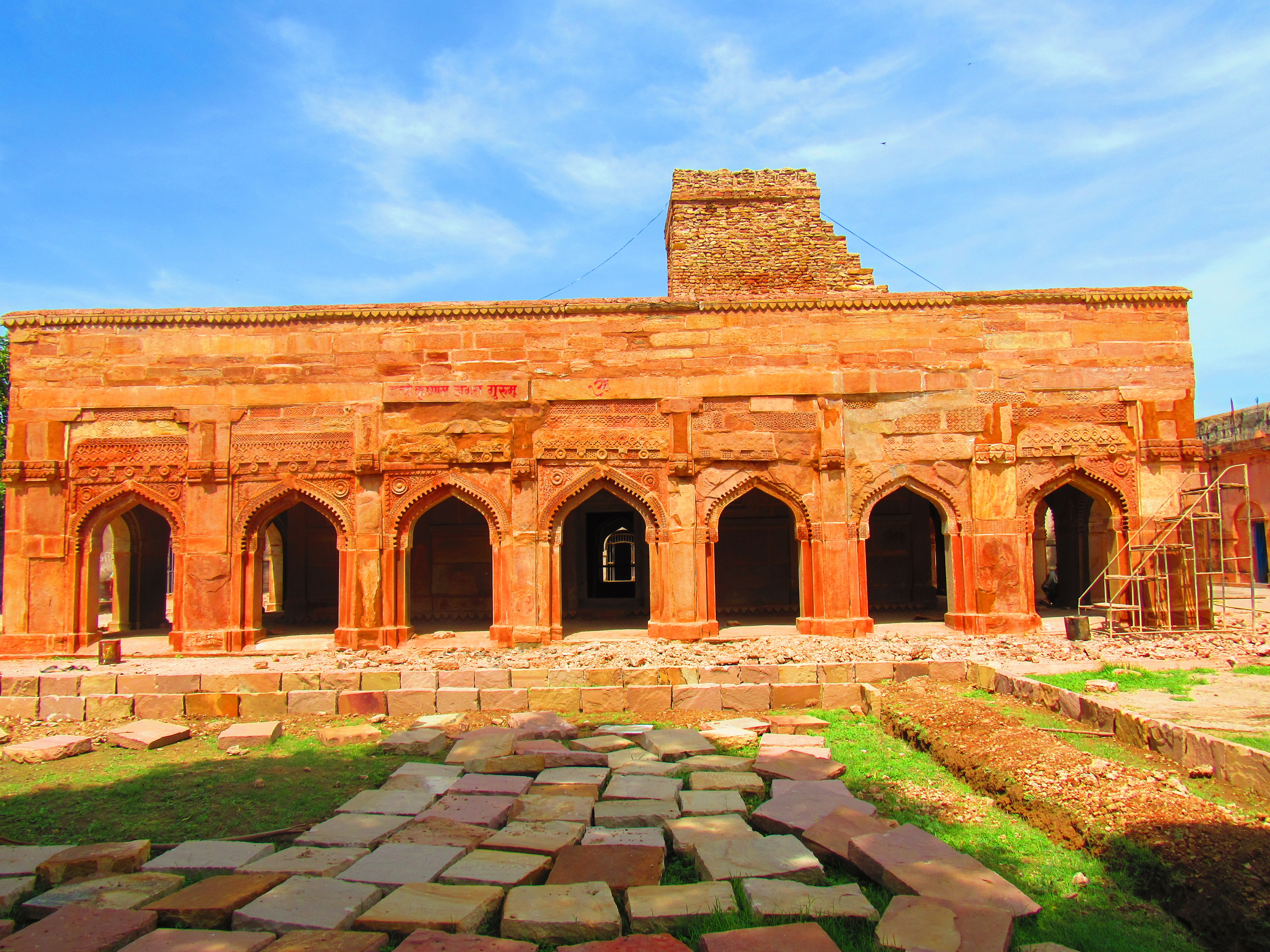 the swarn mandap from chunar garh fort